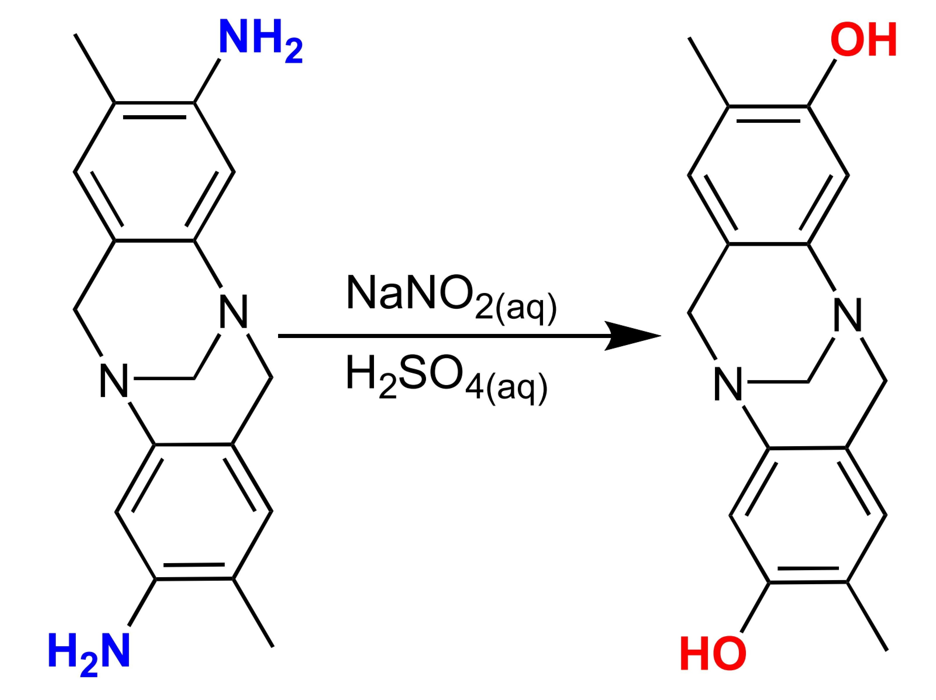 The conversion of an aryl amine to a bisphenol